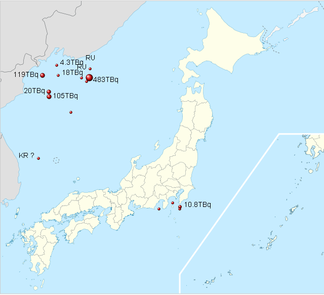 Dump sites in the Sea of Japan. Sites off coast of Nakhodka are of USSR and RU=Russia. source=IAEA_tecdoc_1105